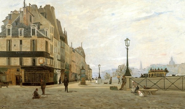 The Pont Neuf and the Quai des Orfèvres, oil on canvas (76 x 124 cm)